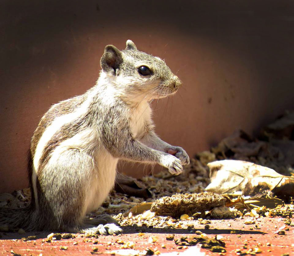 The Squirrel from the Jungle of Alwar, Rajasthan, India